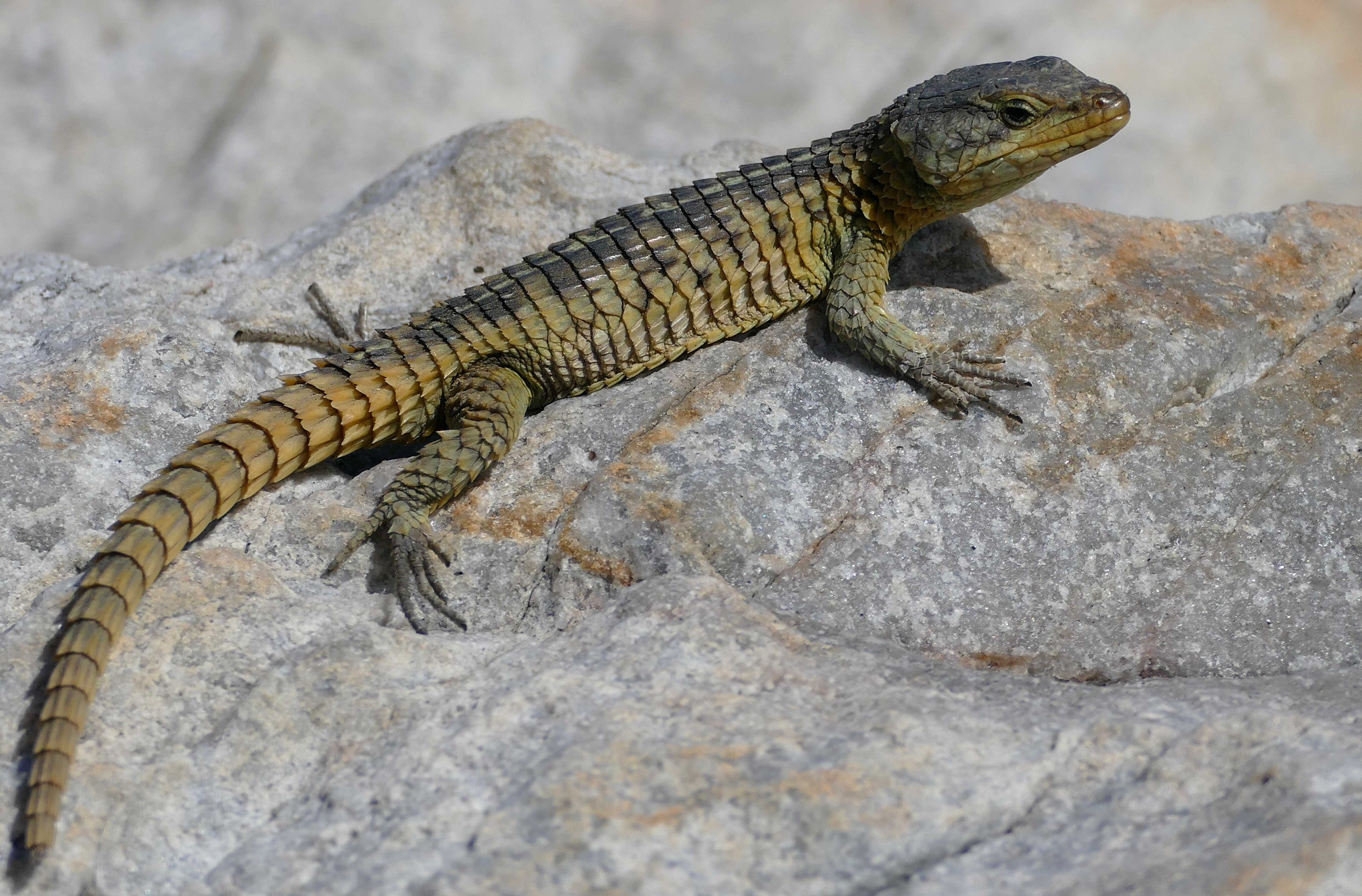 Stony Point Nature Reserve, Betty's Bay, Western Cape, SOUTH AFRICA